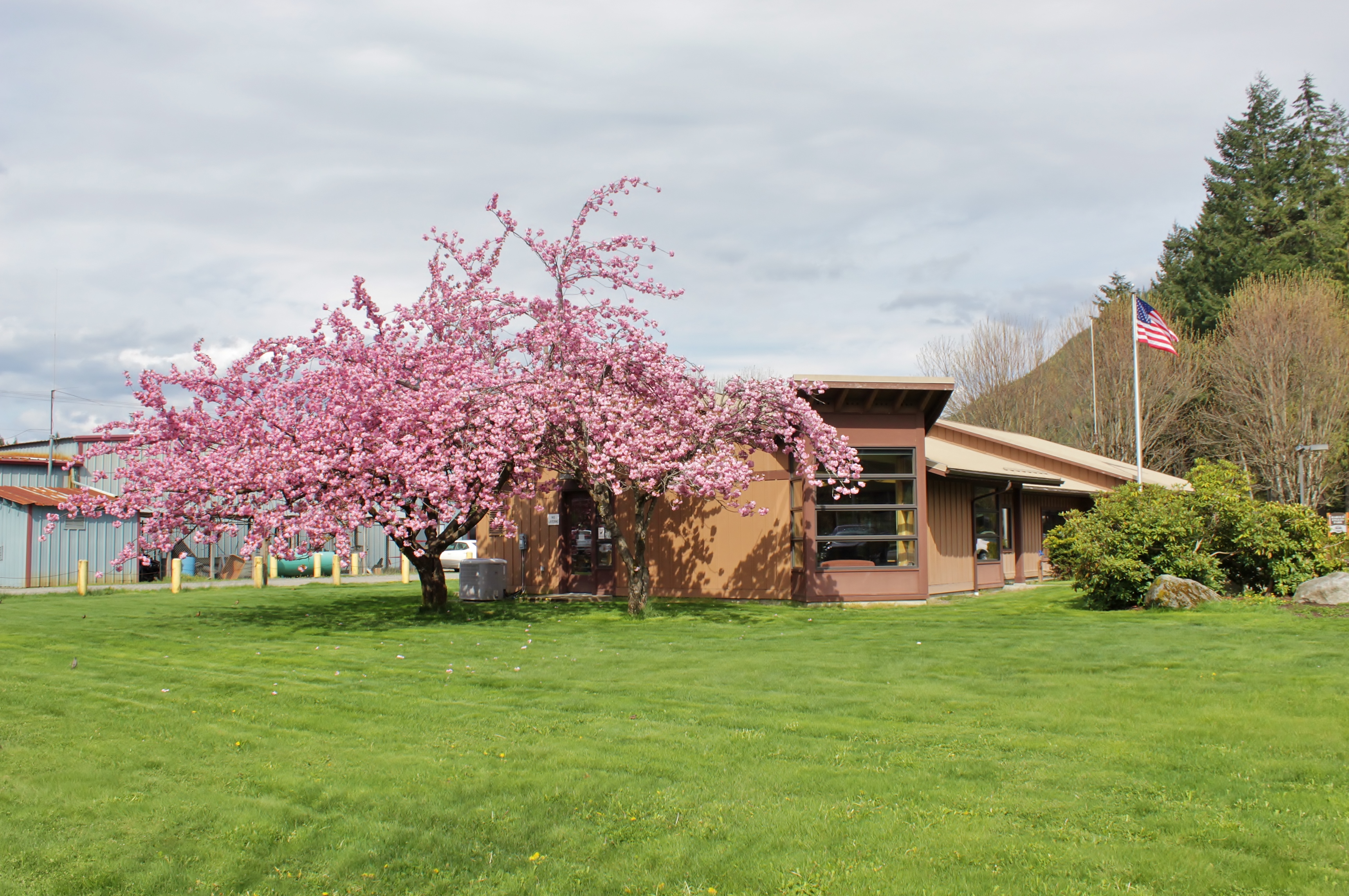 The public library and town hall of Darrington, Washington.